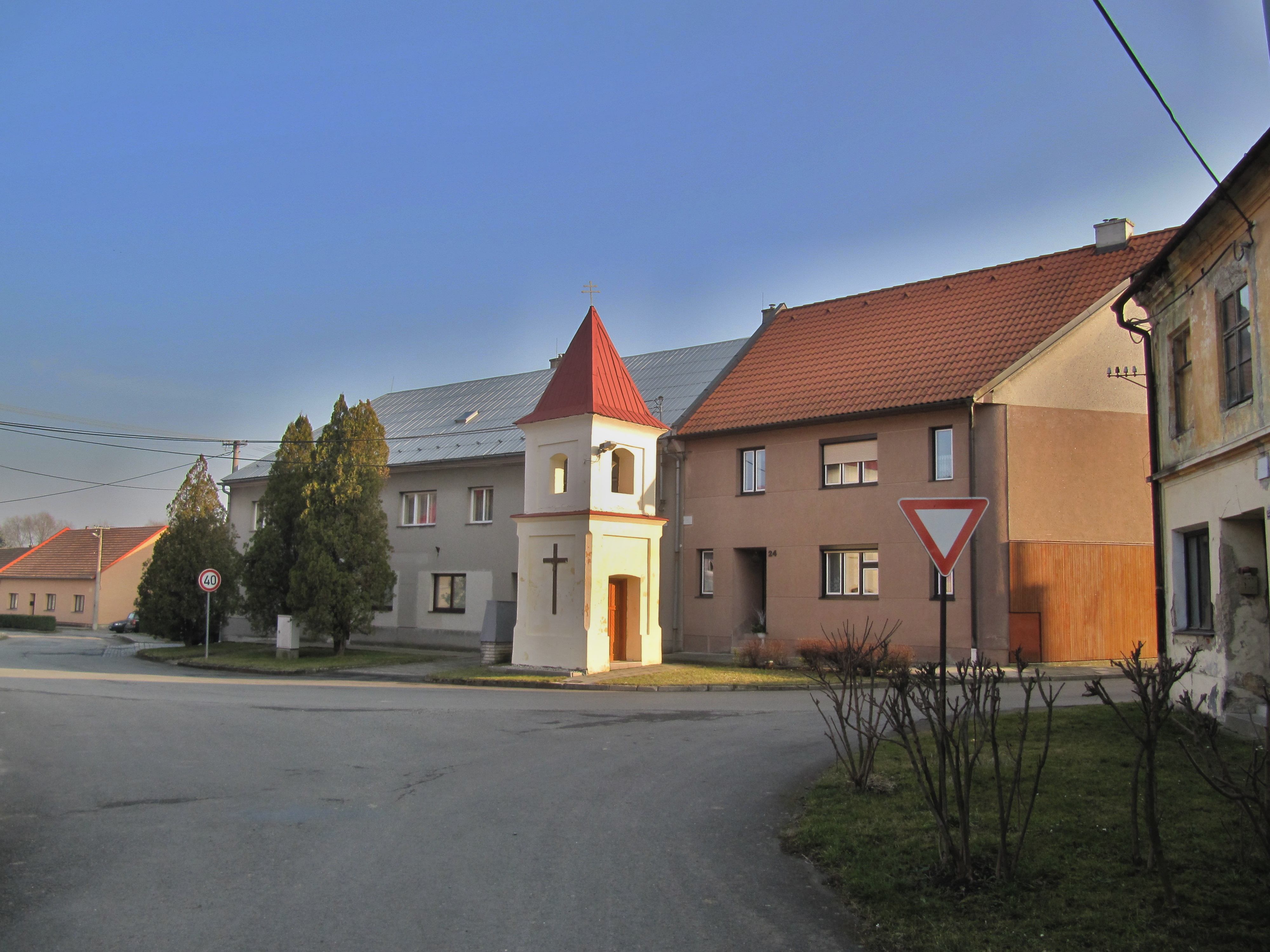 Lutopecny, Kroměříž District, Czech Republic, part Měrůtky.